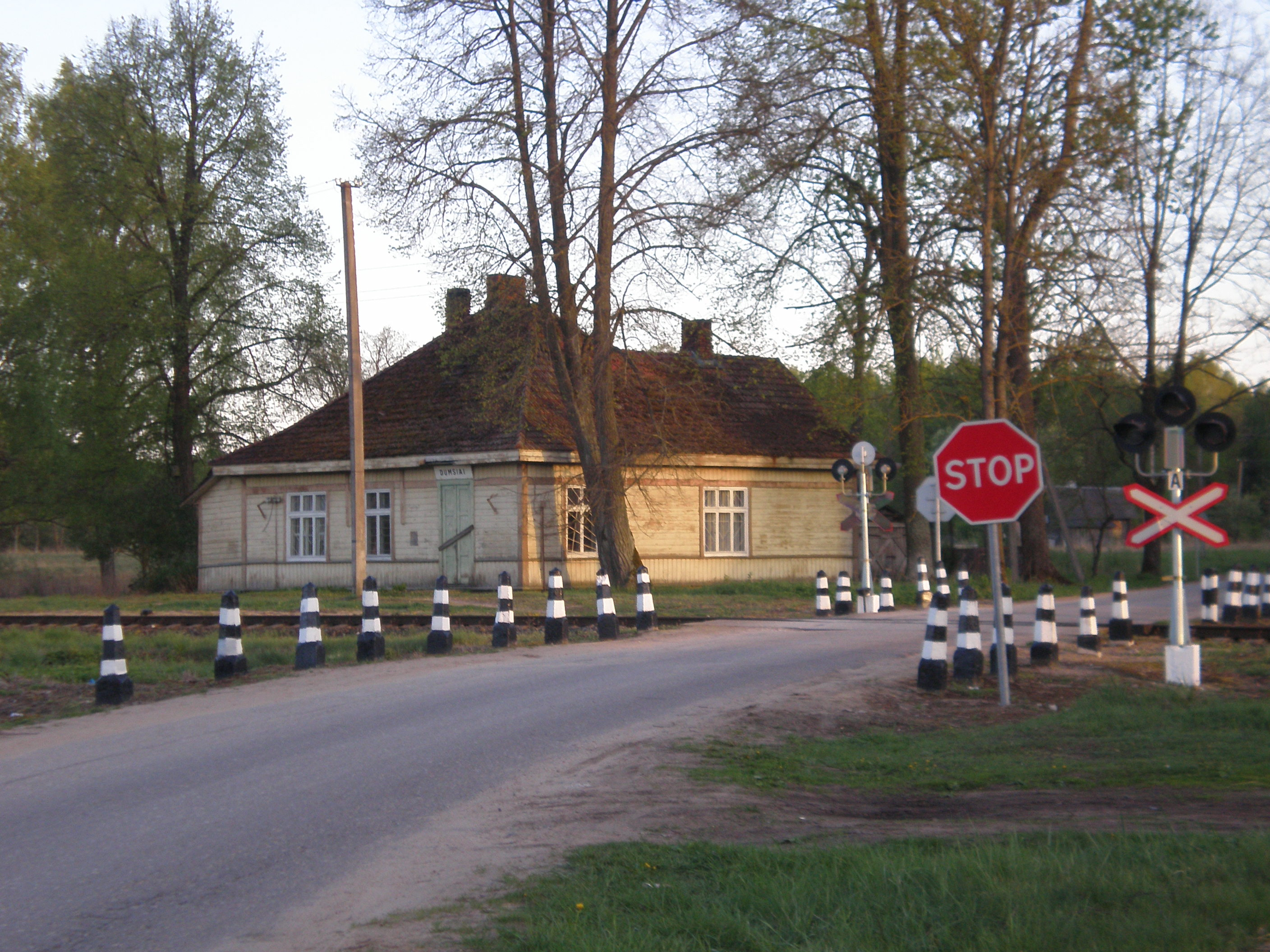 Railway station of Dumsiai